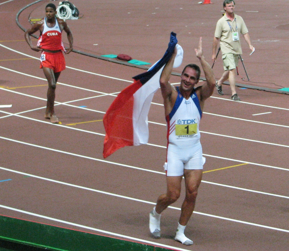 Roman Šebrle, OSAKA 2007, gold medal (decathlon), after 1500m